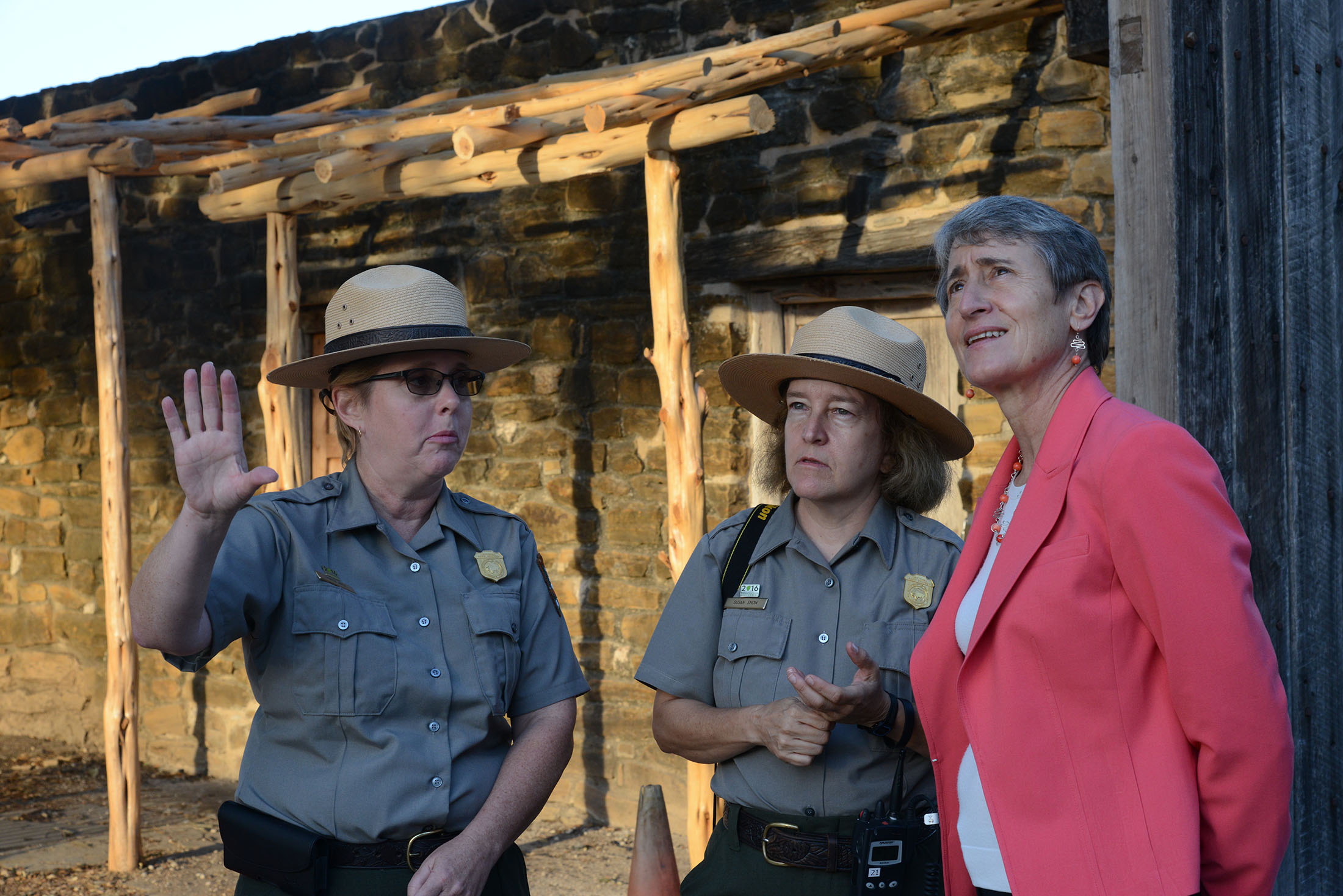 U.S. Secretary of the Interior Sally Jewell and Principal Deputy Assistant Secretary for Fish and Wildlife and Parks Michael Bean celebrated with the San Antonio community to officially mark the dedication of the Spanish colonial missions in San Antonio Missions National Historical Park, which includes the Alamo, as a UNESCO World Heritage Site. The Missions are now a part of more than 1,000 inscribed natural and cultural sites worldwide, such as the Grand Canyon in Arizona, Taj Mahal in India and the Great Barrier Reef in Australia. Photo Credit Tami A. Heilemann DOI